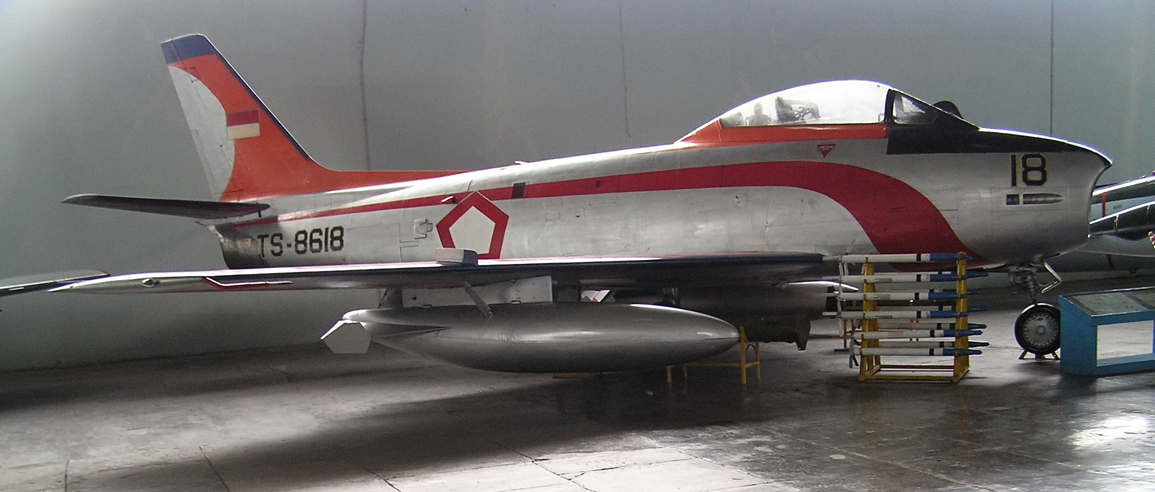 Indonesian Air Force CAC Sabre (an Australian designed and built variant of the F-86) in the Air Force Museum